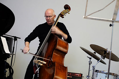 Jesper Lundgaard at Aarhus Jazz Festival 2015